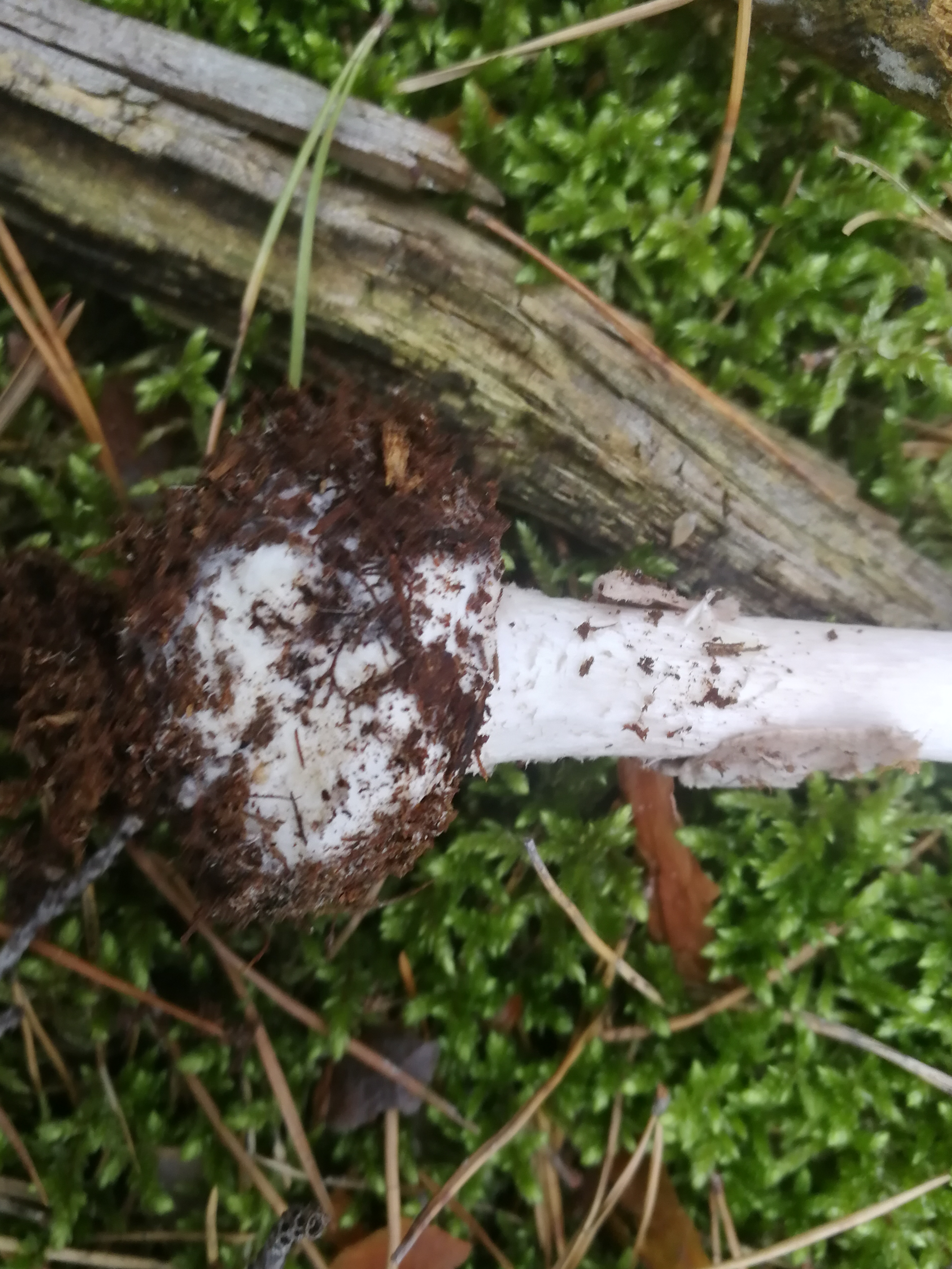 Amanita porphyria